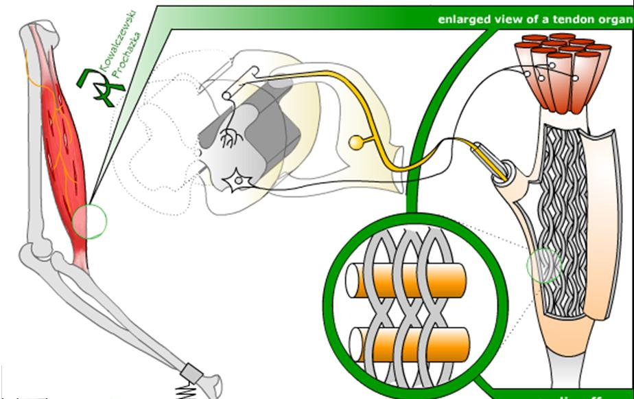 Golgi tendon organ schematic from animation